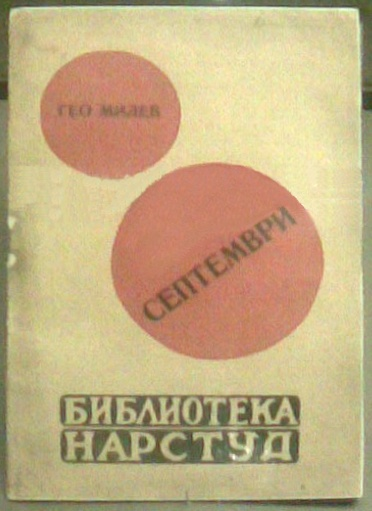 First edition of the poem "September" by the bulgarian poet Geo Milev